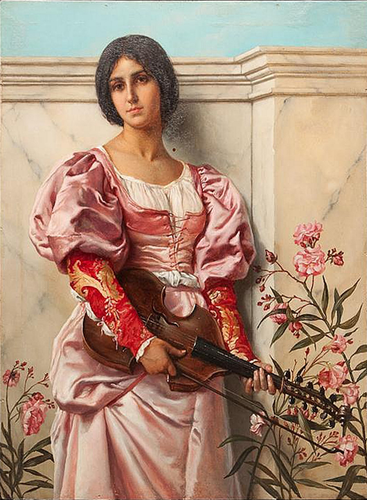 Maiden Holding Stringed Instrument